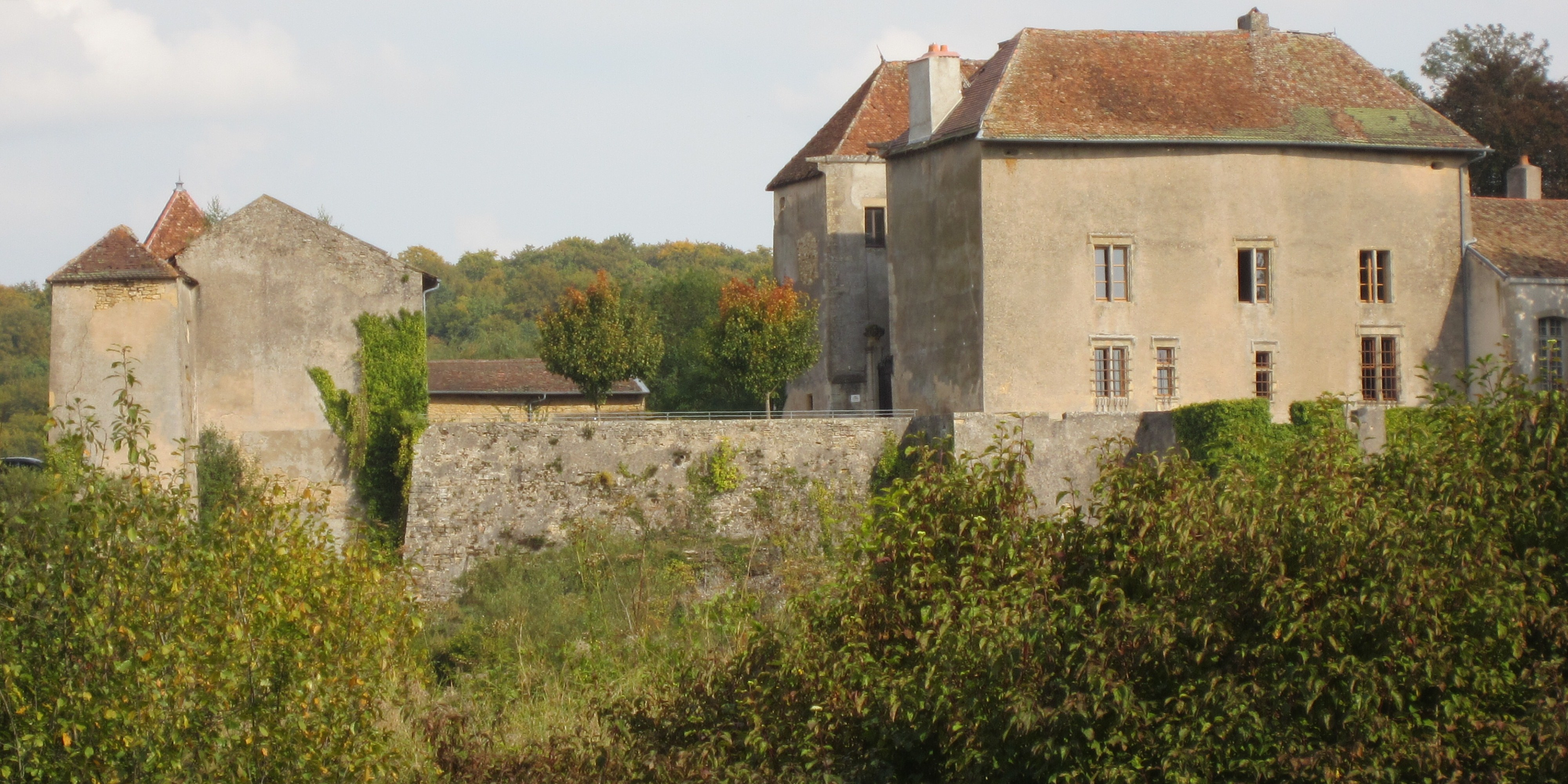 Description chateau Jaulny Date27 September 2011Sourcemon appareil photoAuthorAimelaimePermission (Reusing this file) chateau Jaulny